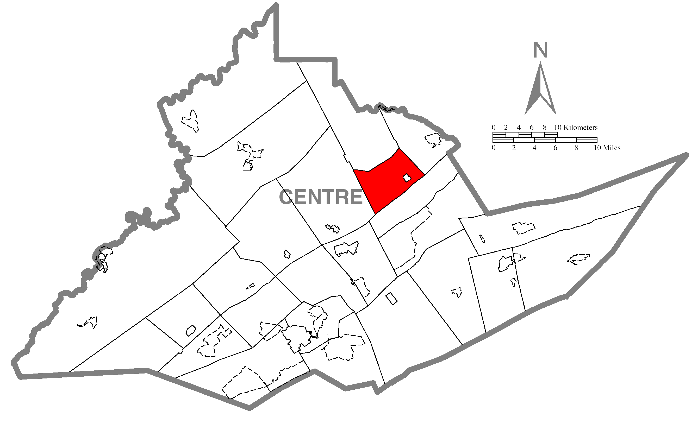 A map of Centre County showing Howard Township, Pennsylvania (alternate) highlighted on the map.